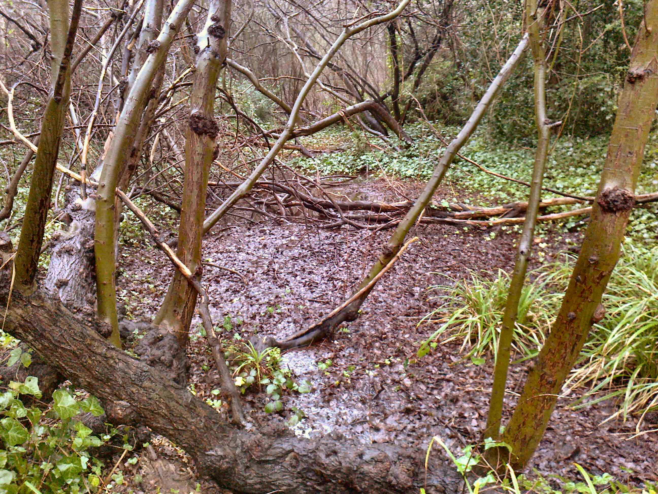 The wet forested sump area nicknamed 'The Mangrove Swamp' in the Gunnersbury Triangle local nature reserve, London